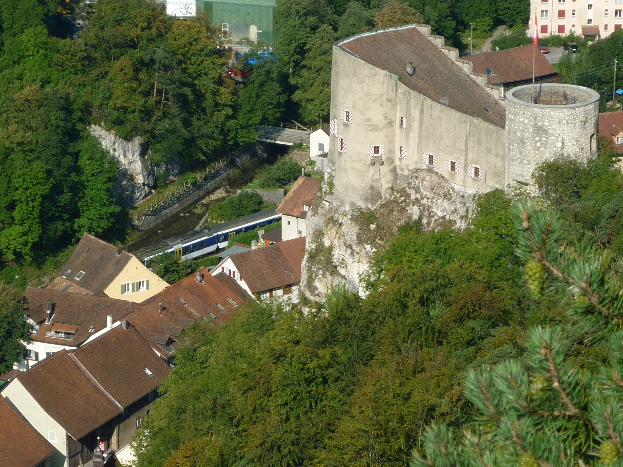 Klus SO, Switzerland